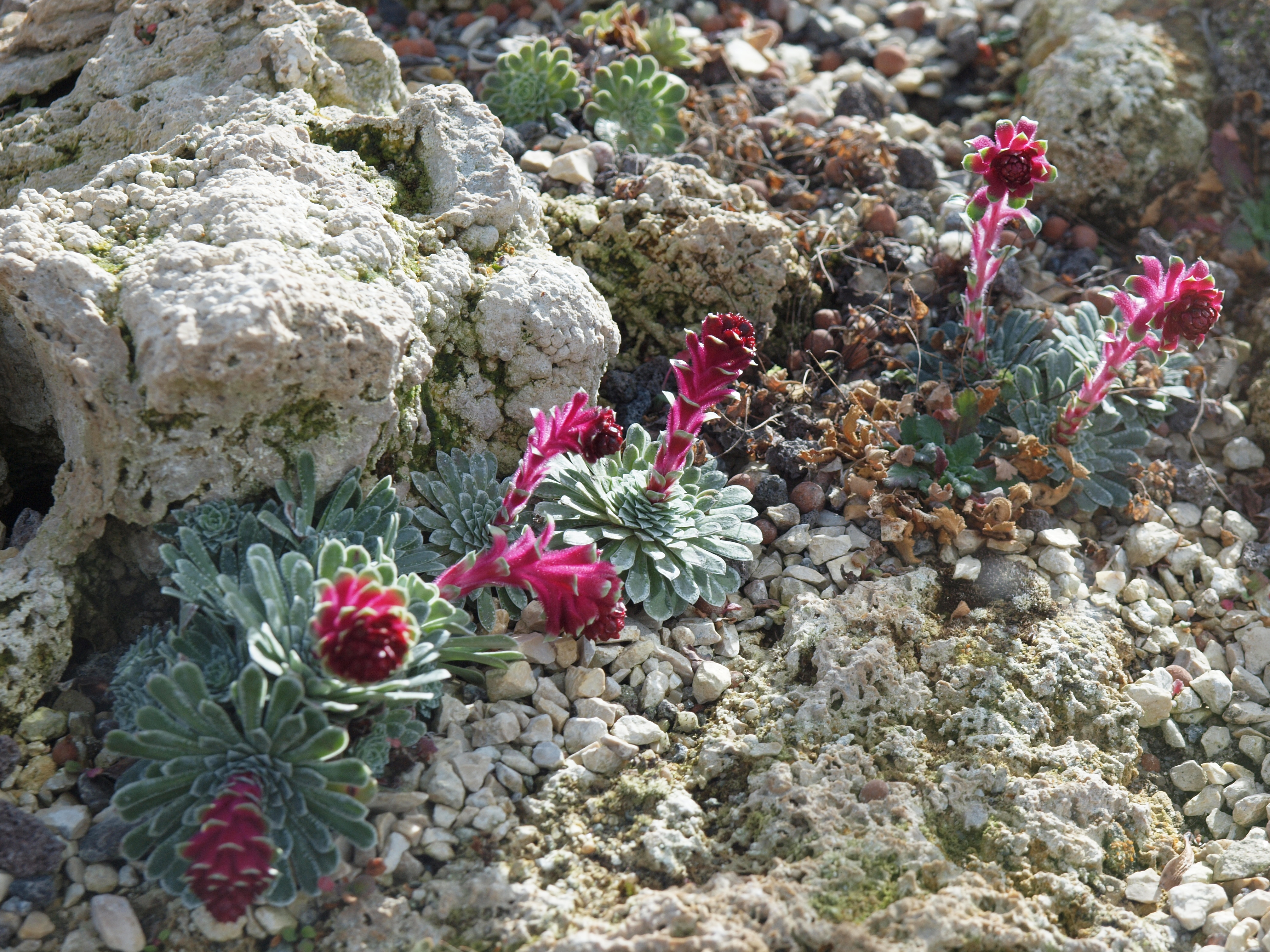 Saxifraga grisebachii Munich Botanic Gardens Nymphenburg